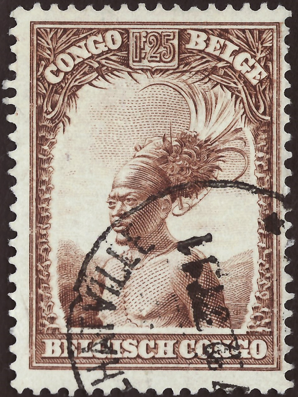 Stamp of Belgian Congo; 1931; definitive stamp of the issue "Peoples and Views of Congo"; stamp motive with a Mongbetu chief with traditional head style; stamp postmarked in Coquilhatville (name until 1966, contemporary Mbandaka, at the banks of the Congo river, nearby the inlet of the Ruki river) in 1931 Stamp: Michel: No. 139; Yvert & Tellier: No. 177; Scott: No. 148 Color: reddish brown Watermark: none Nominal value: 1.25 F (Francs) Postage validity: from 15 September 1931 until 31 August 1942 date QS:P,+1950-00-00T00:00:00Z/7,P580,+1931-09-15T00:00:00Z/11,P582,+1942-08-31T00:00:00Z/11 Stamp picture size (printed area of a single stamp): 25.0 x 34.5 mm